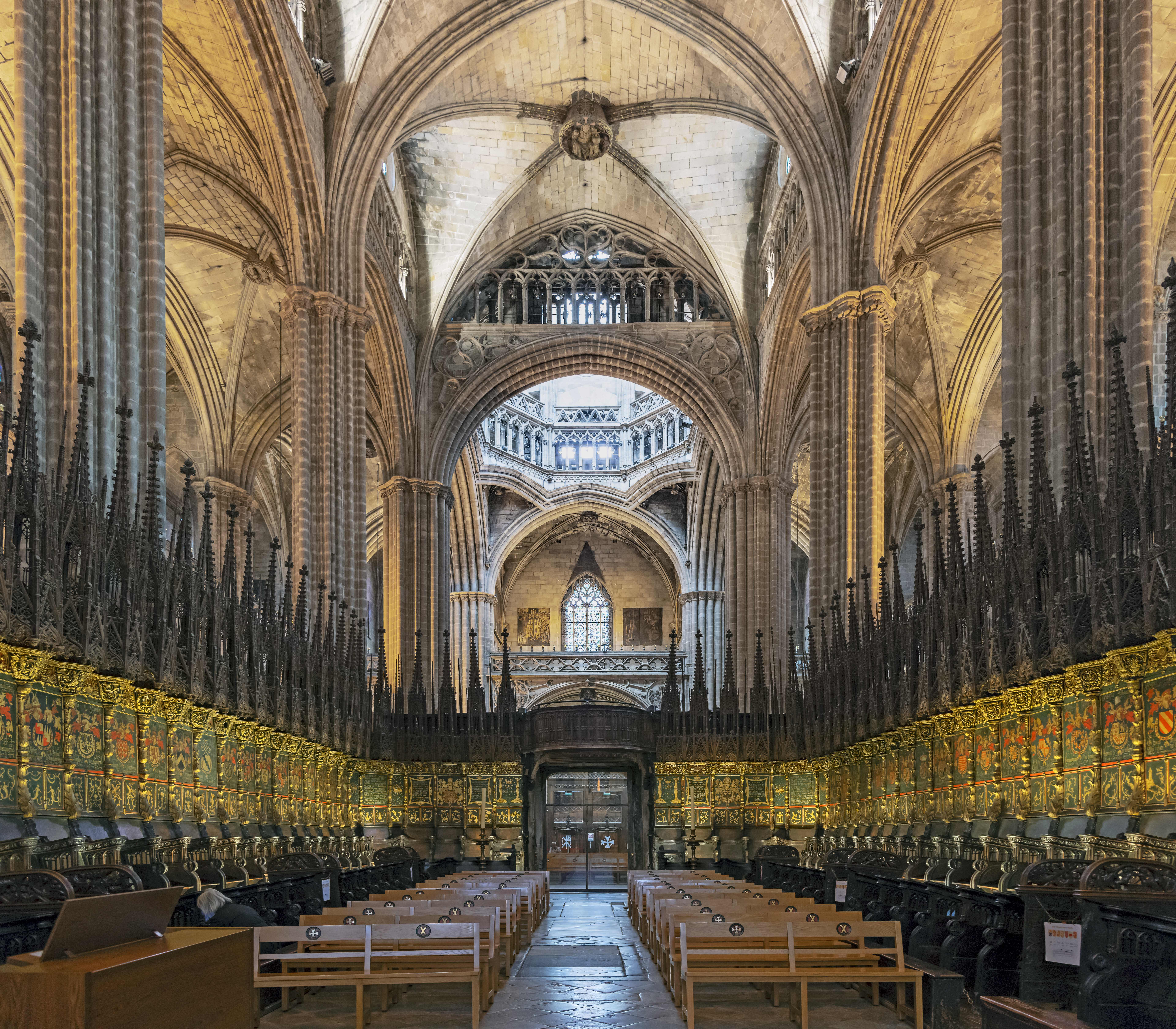 The Cathedral of the Holy Cross and Saint Eulalia in Barcelona. The choir and the entrance